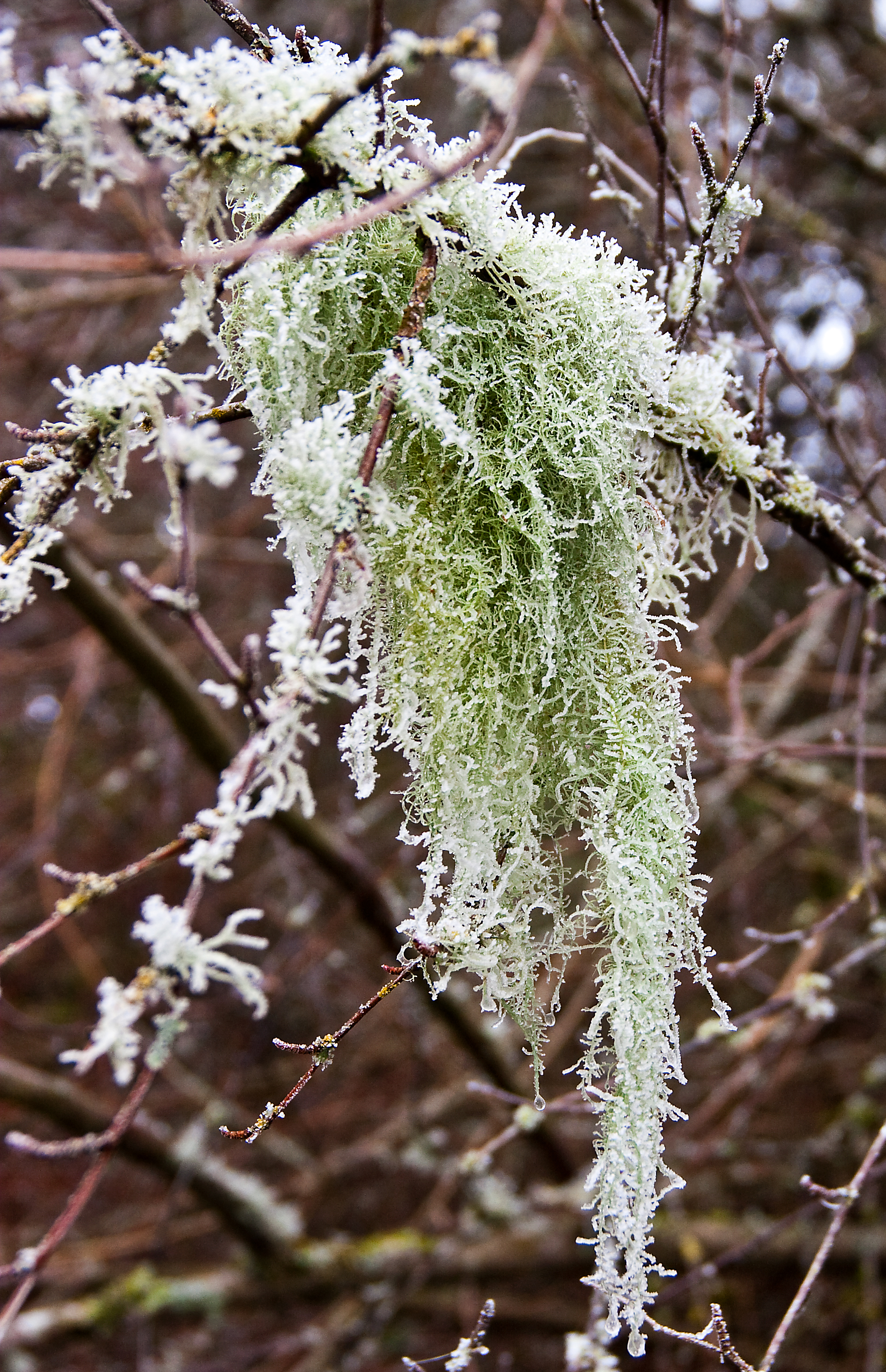 Frozen fog leaves ice crystals coating everything